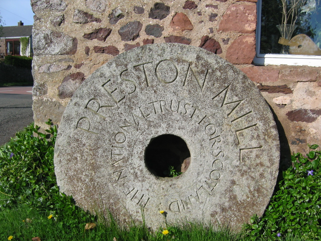 Preston Mill, East Linton, East Lothian, Scotland, UK